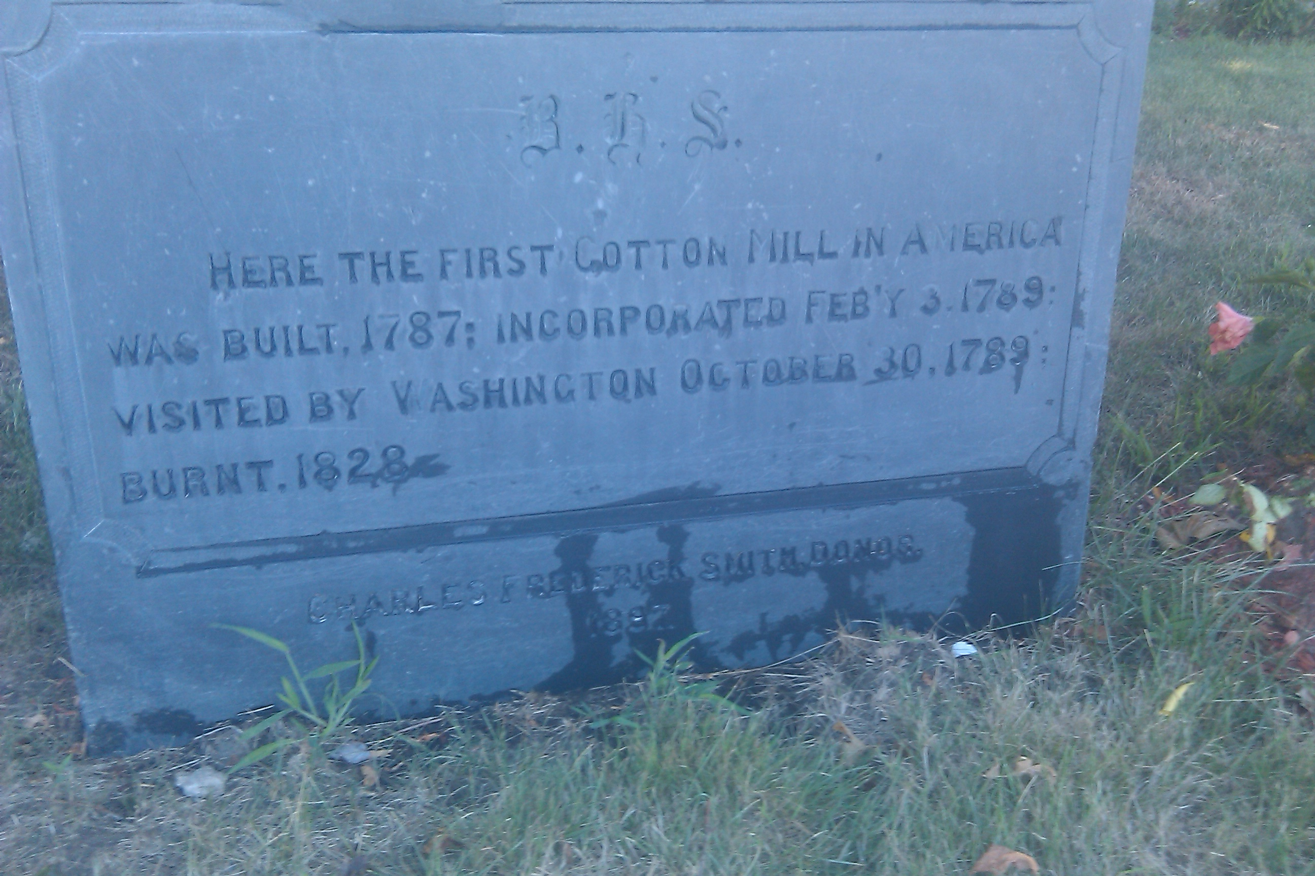 Photo of the Beverly Cotton Manufactory memorial.